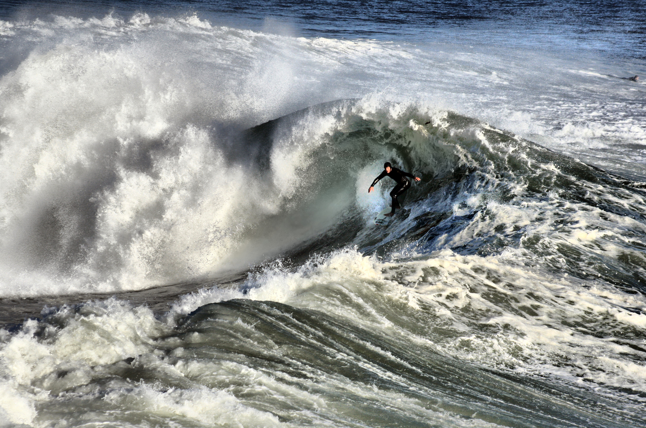 A California surfer. Santa Cruz and the surrounding Northern California coastline is a popular surfing destination; however, the year-round low temperature of the ocean in that region (averaging 57ºF/14ºC) necessitates the use of wetsuits.